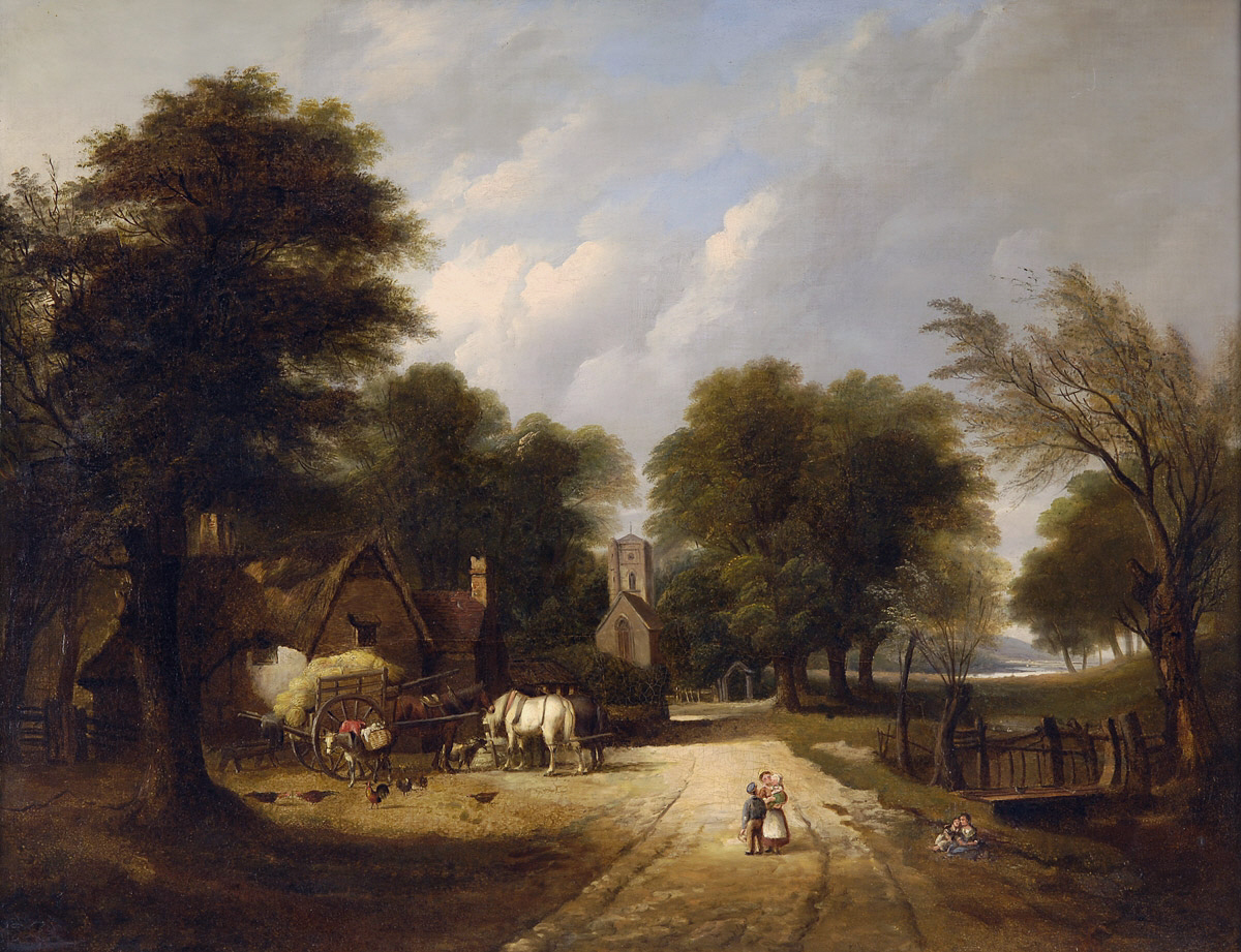 Rural idyll. Anonymous artist, England, 19th century.